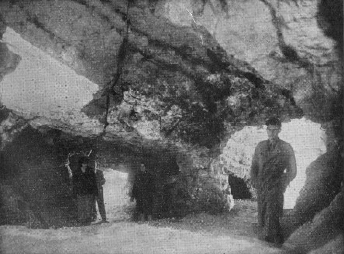 Lóczy Cave - Lower room. (Balatonfüred, Hungary)